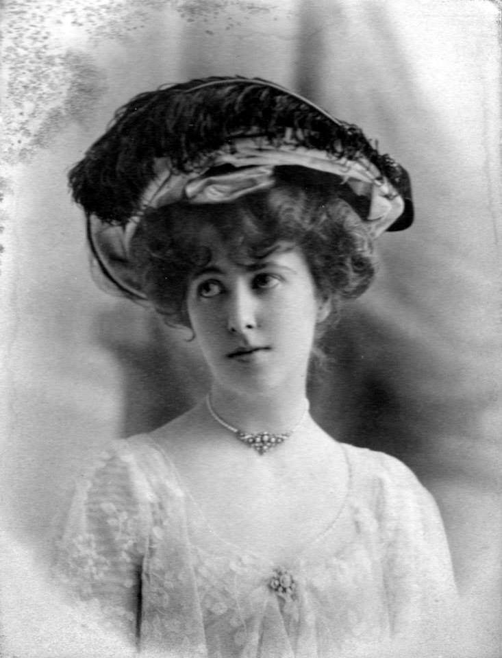 Kathleen Mary Harmsworth